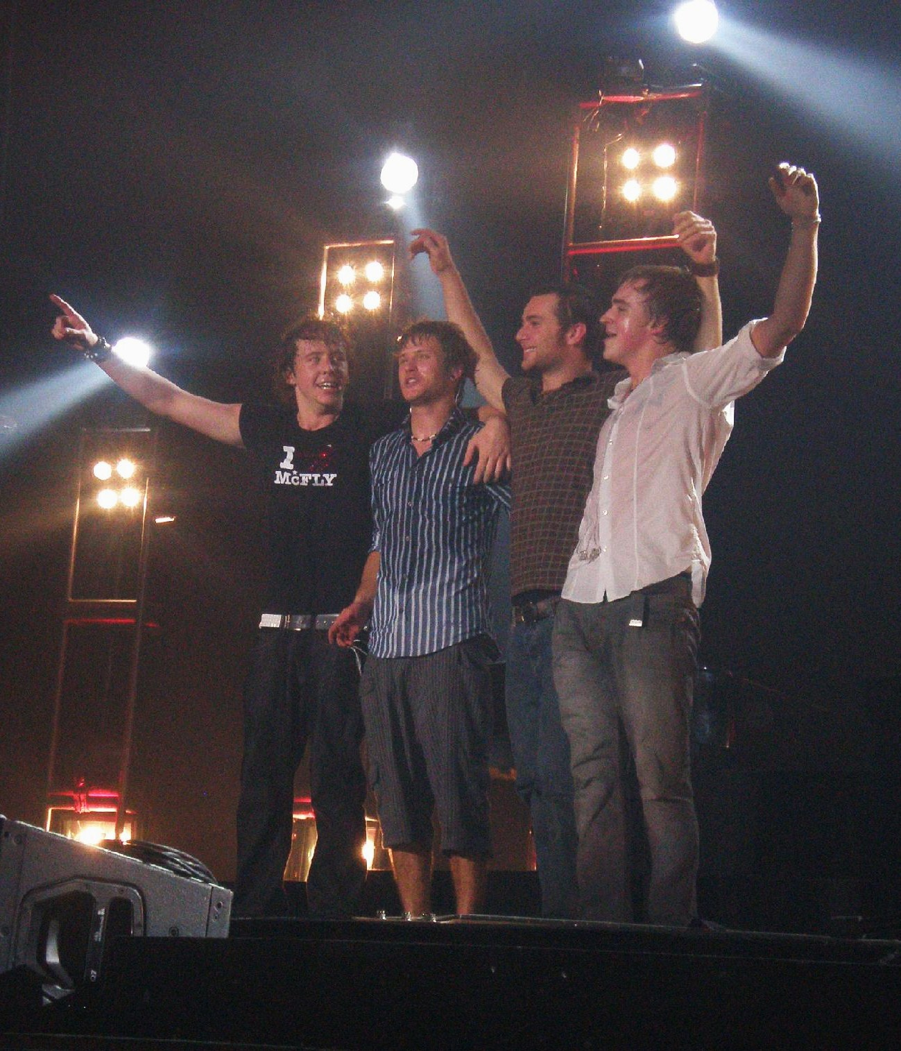 McFly on their Greatest Hits Tour at Wembley Arena.